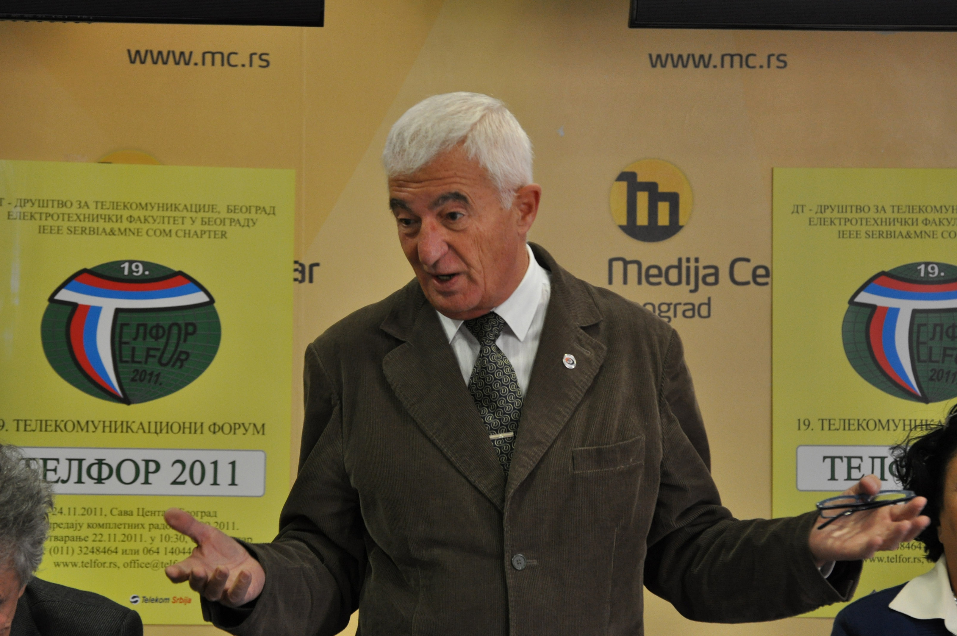 Đorđe Paunović